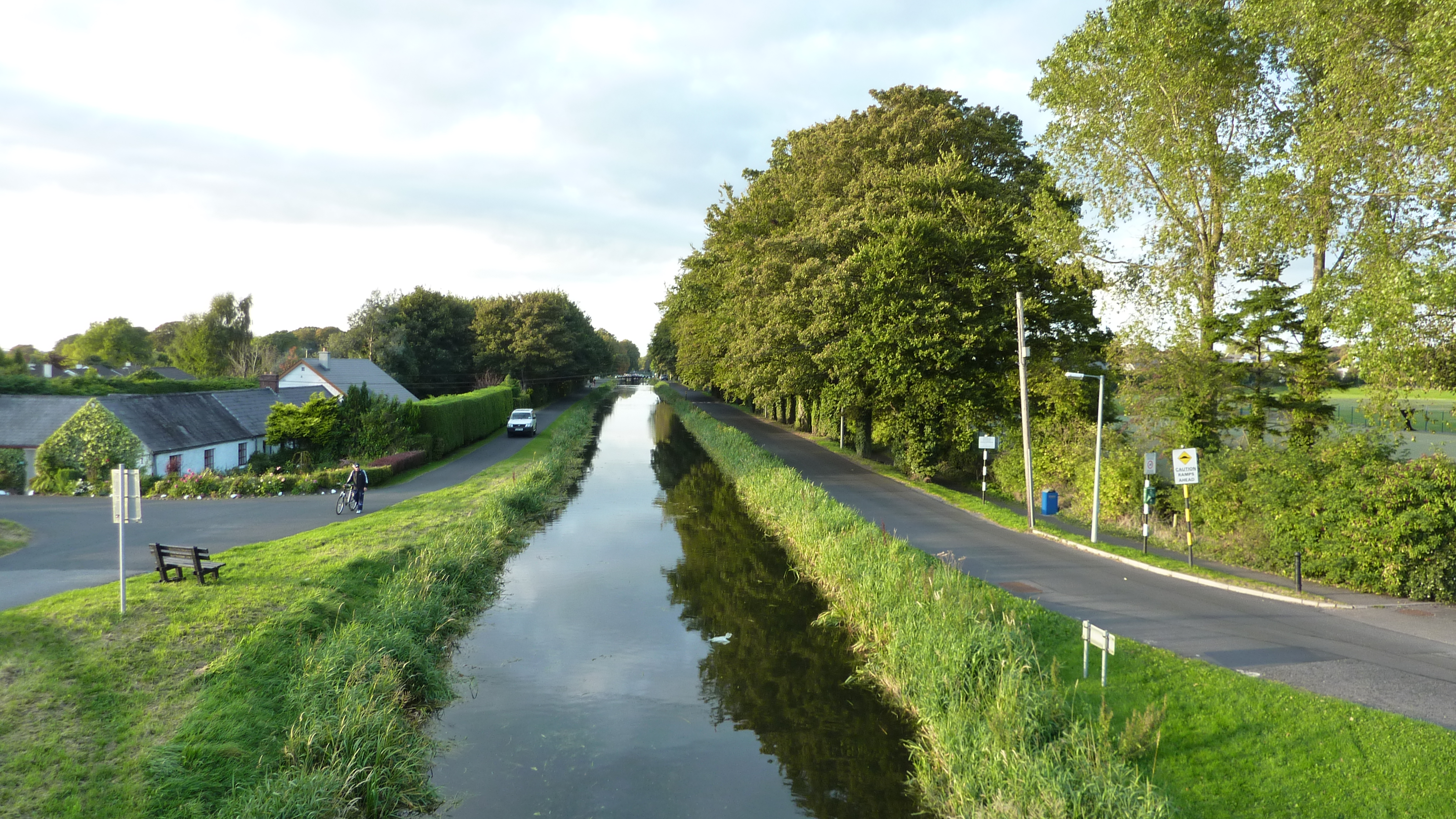 A view looking north of the canal at Naas, County Kildare, Ireland taken from Abbey Bridge